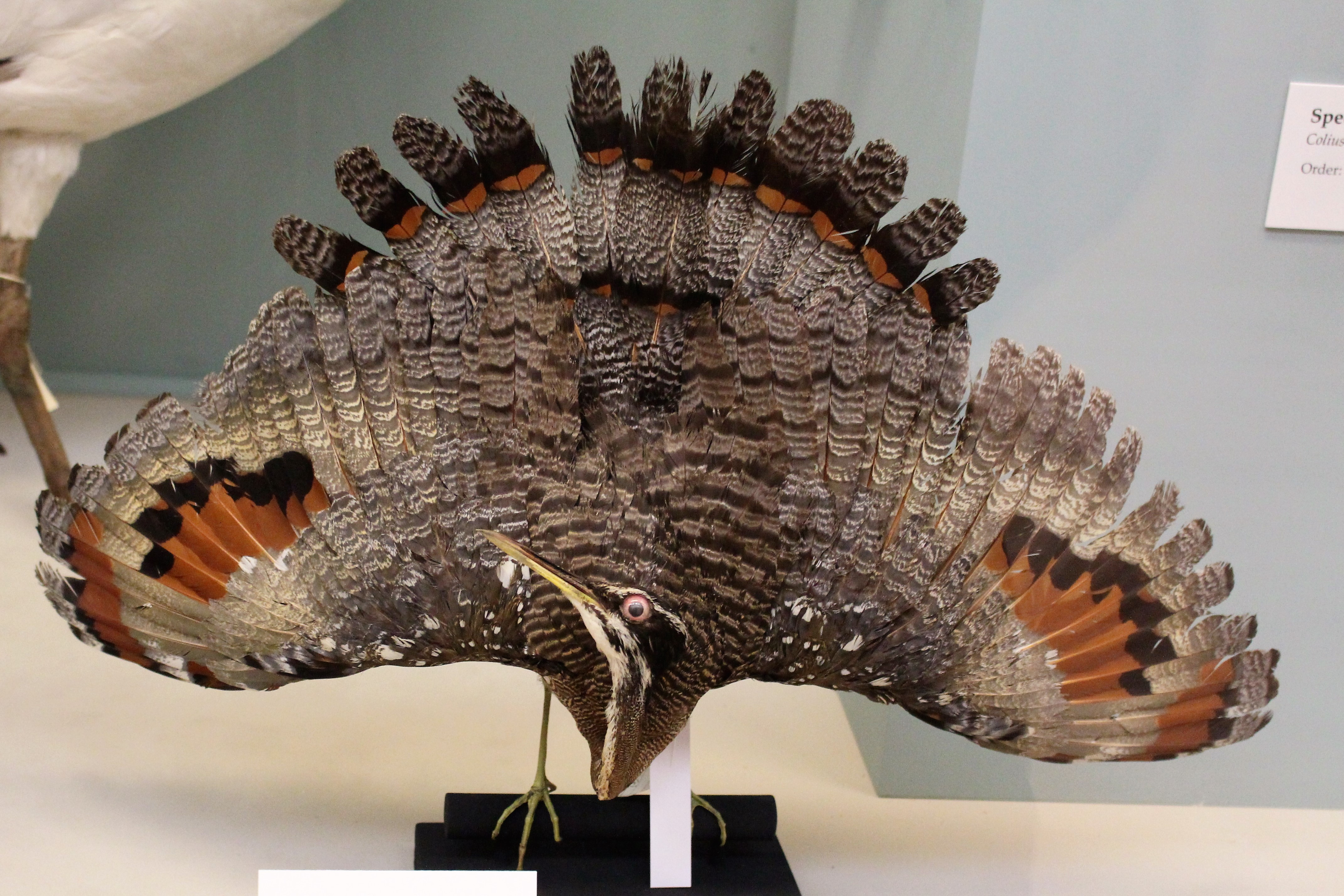 Taxidermied sunbittern (Eurypyga helias) with spreaded wings, at the Natural History Museum in London, England.